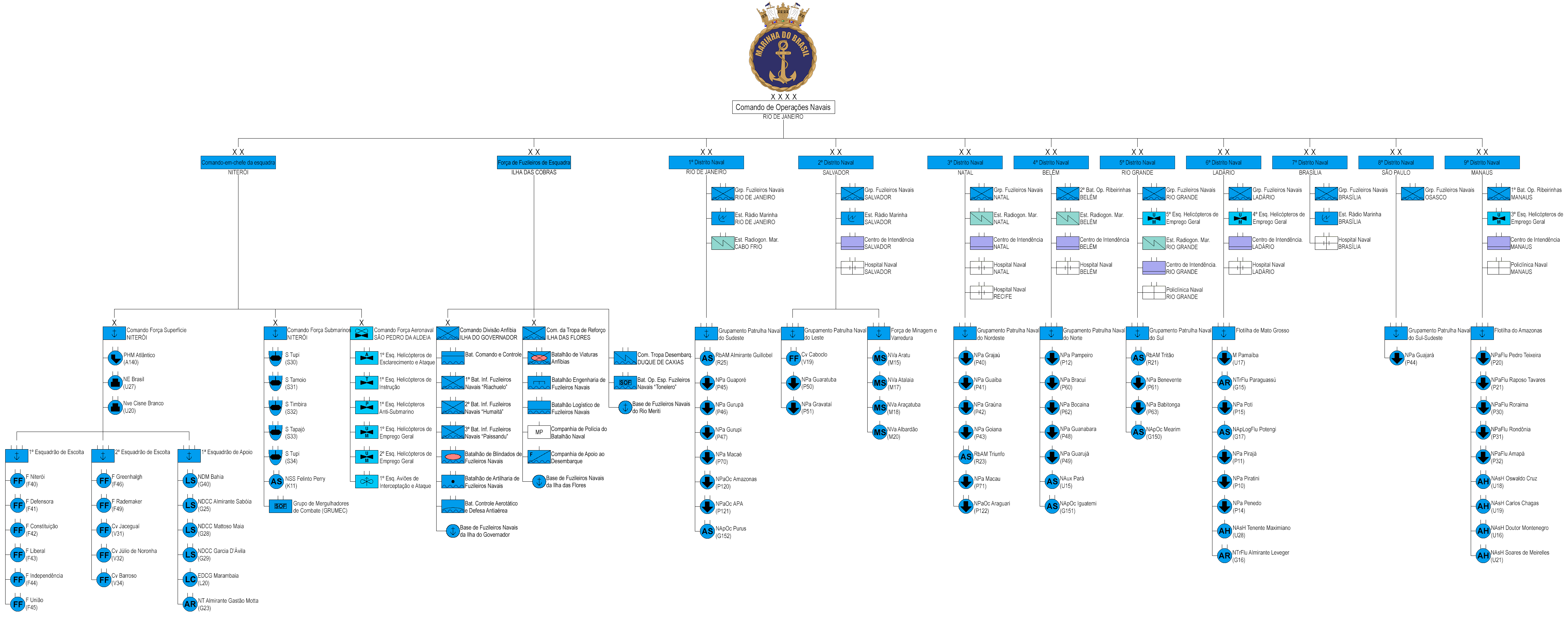 Structure of the Brazilian Brazilian Navy